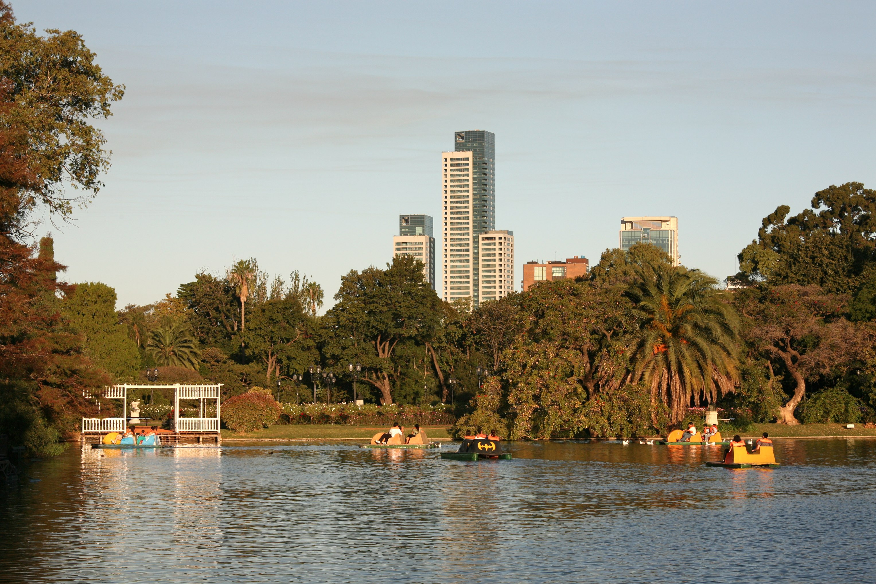 The Lake, The Rose Garden, Palermo, Buenos Aires